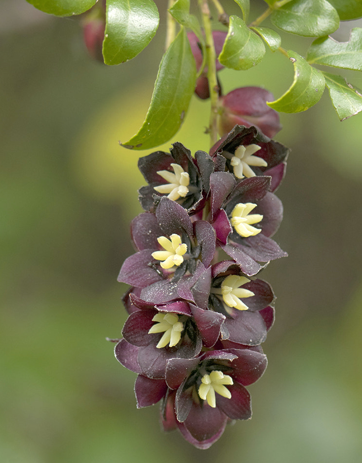 500px provided description: Coguilera, flowers in central Chile. [#flowers ,#flower ,#beautiful ,#plant ,#purple ,#flora ,#biobio ,#Chile ,#coguilera]